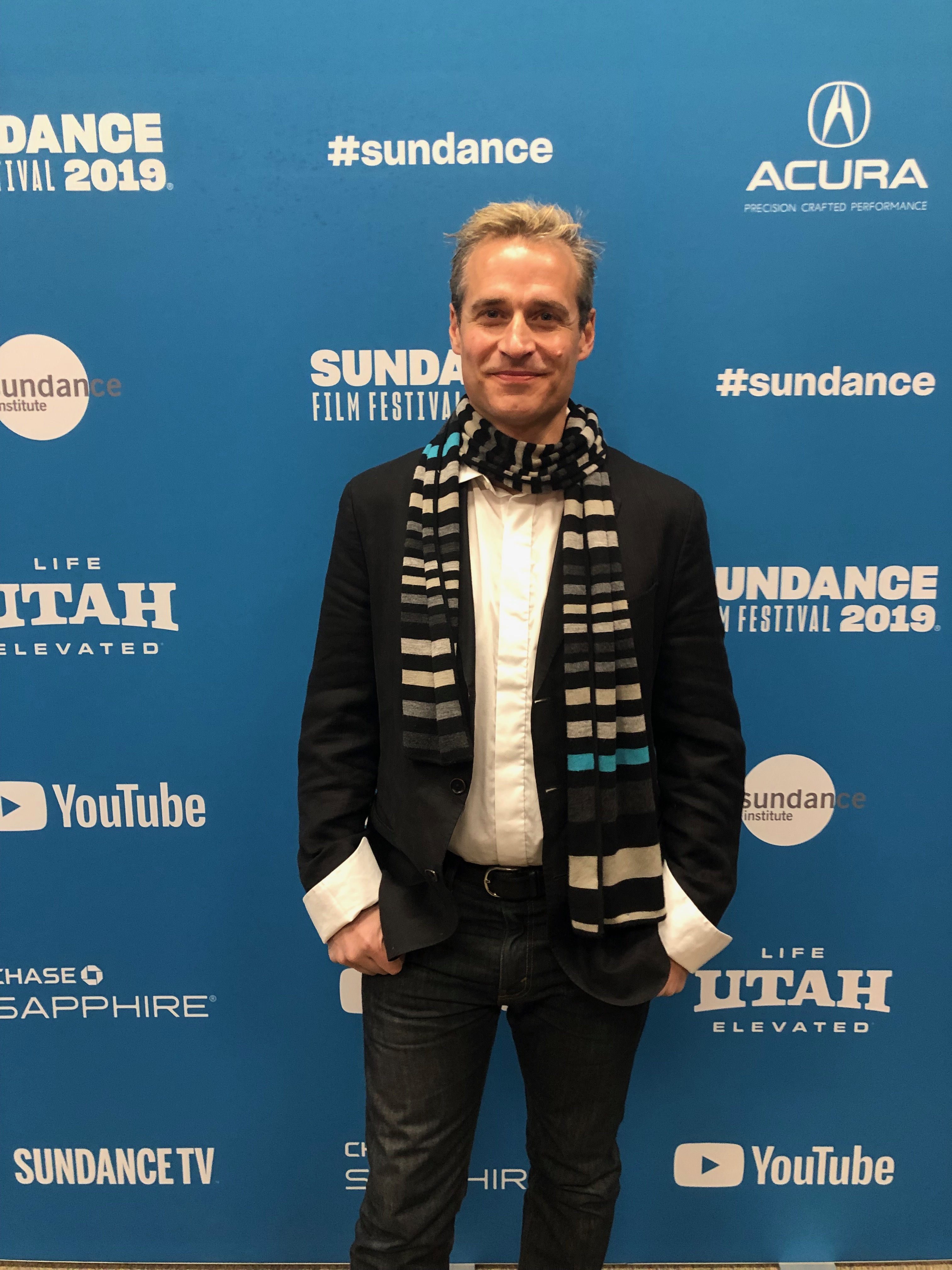 Paul Leonard-Morgan attends the 2019 Sundance Film Festival in Park City, Utah.